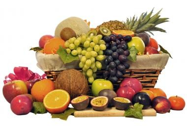 A picture of a fruit gift basket from Baskets Galore Ltd